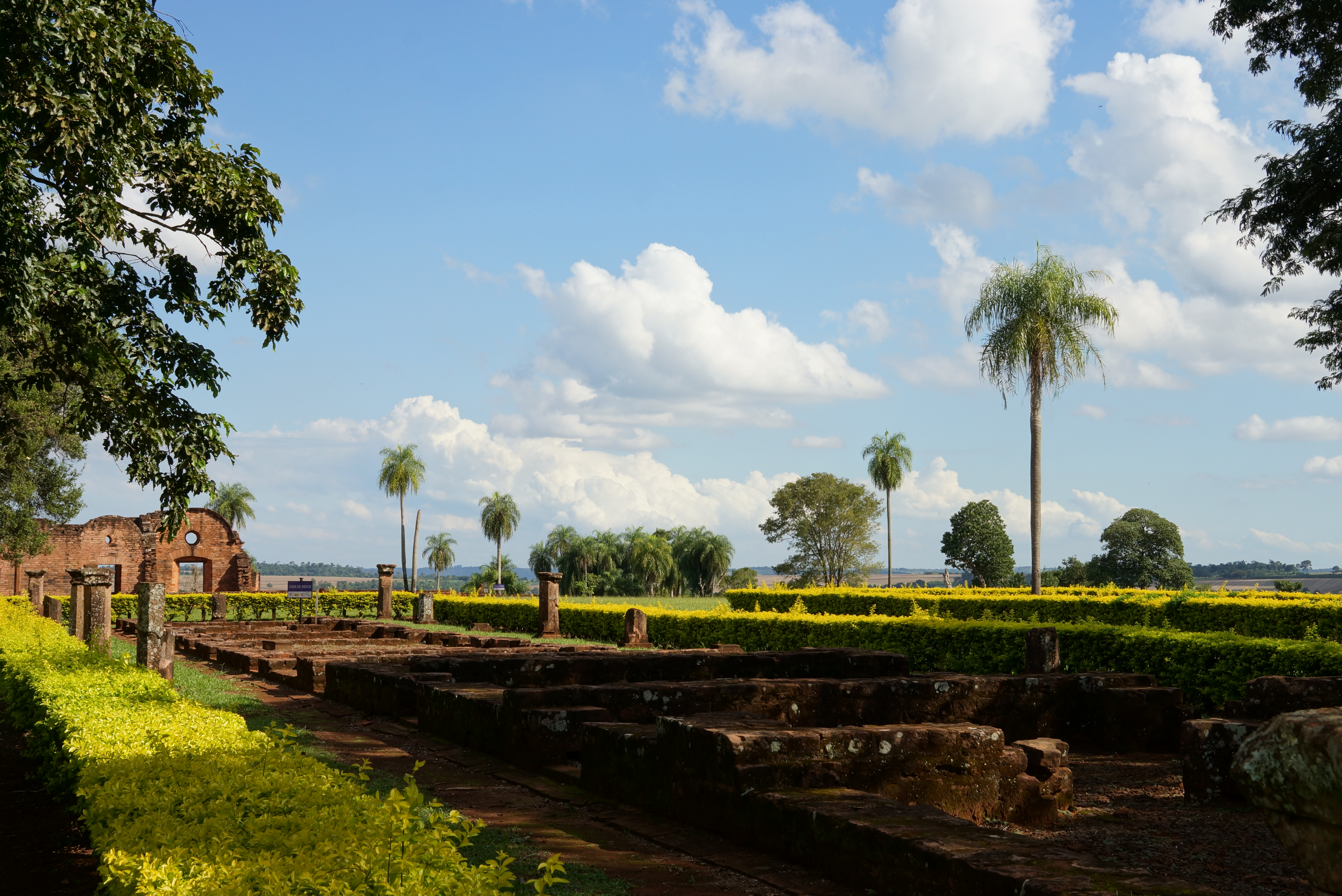 Next to the church of the former Jesuit reduction of Jesús de Tavarangüe lie the ruins of houses in which the Guaraní indians lived.